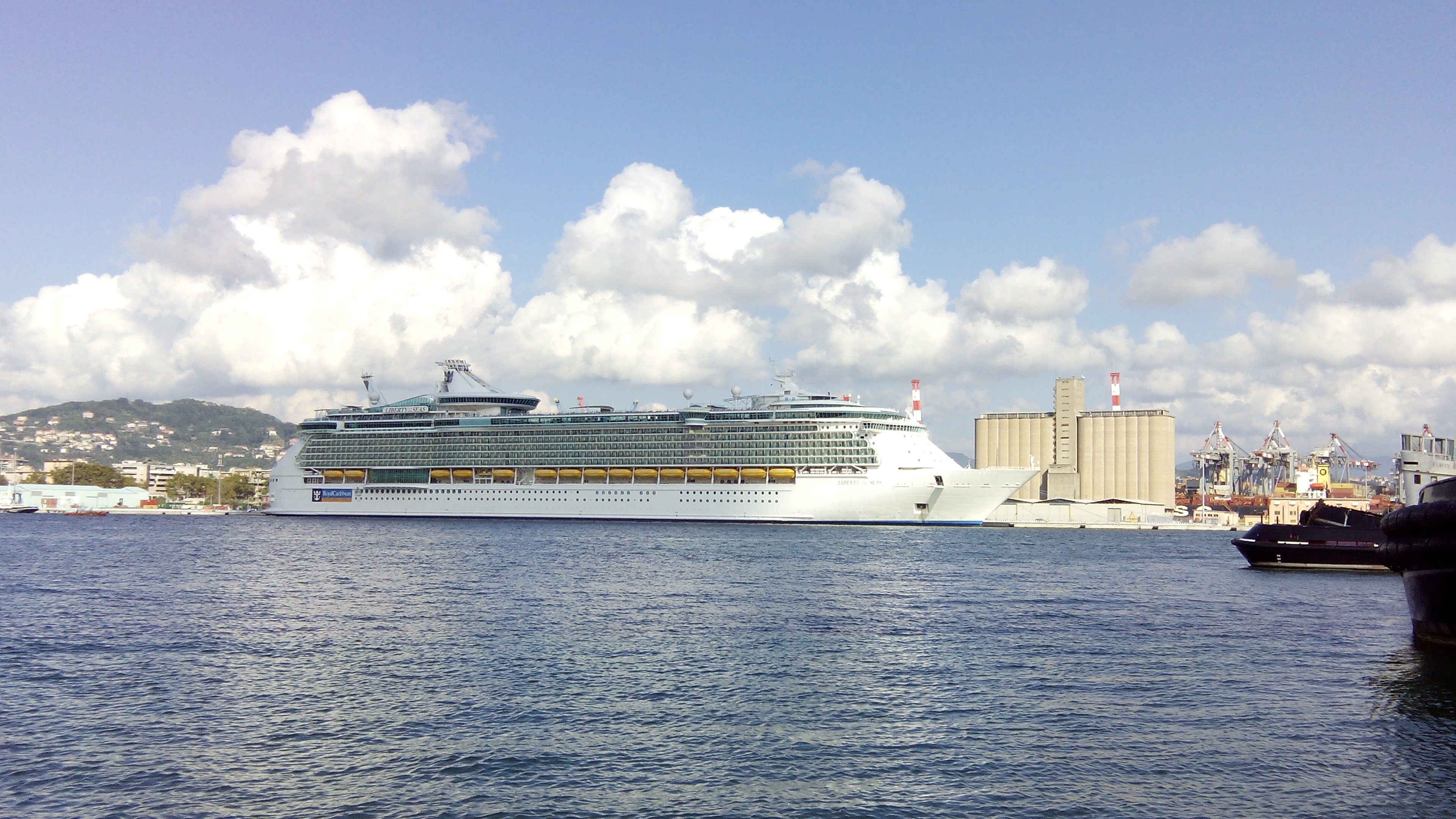 MS Liberty of the Seas at La Spezia, Italy (September 2013)